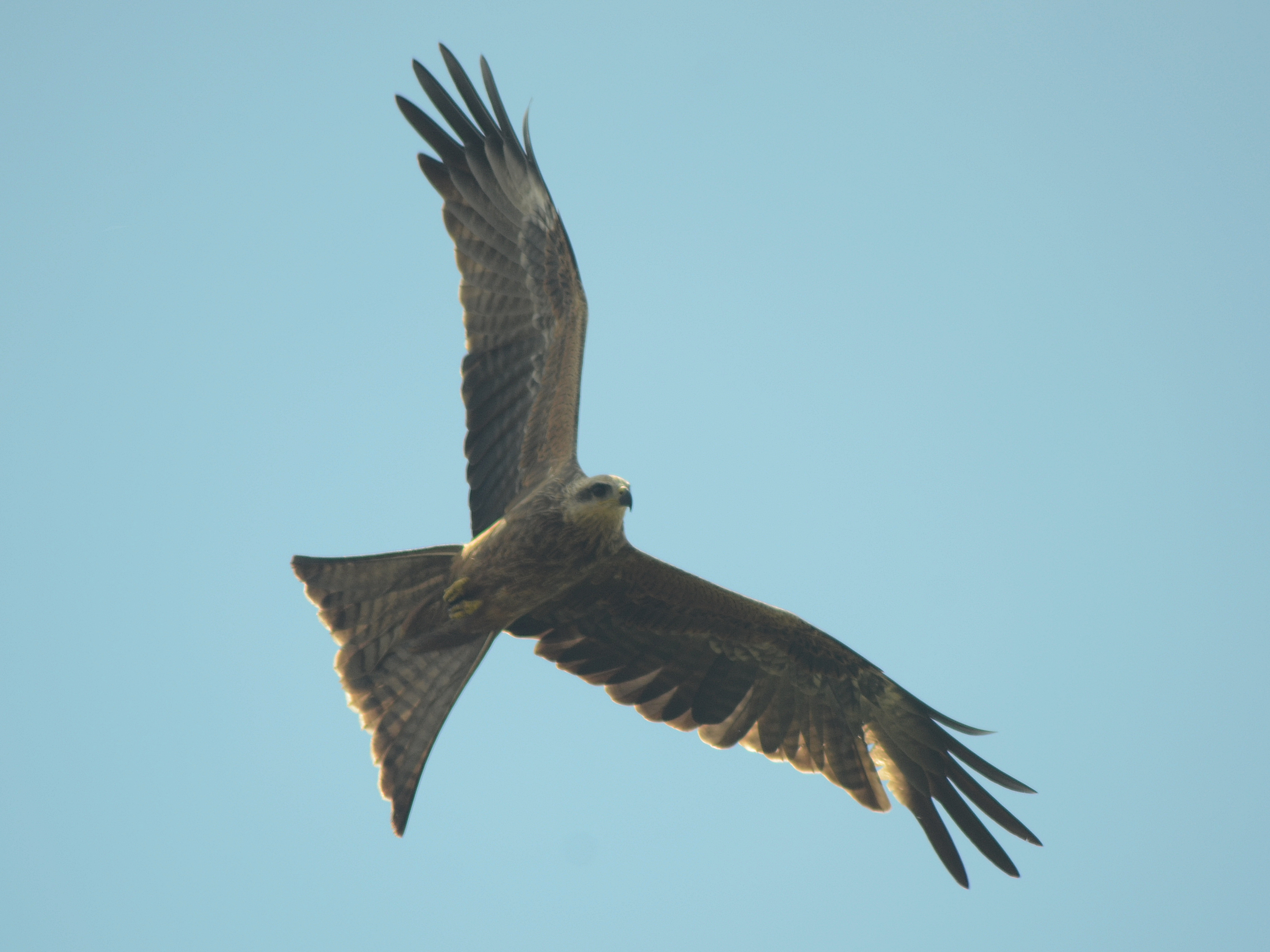 Black kite (Milvus migrans affinis) at Tomohon, North SulawesiBahasa Indonesia: Elang paria (Milvus migrans affinis) di Tomohon, Sulawesi Utara